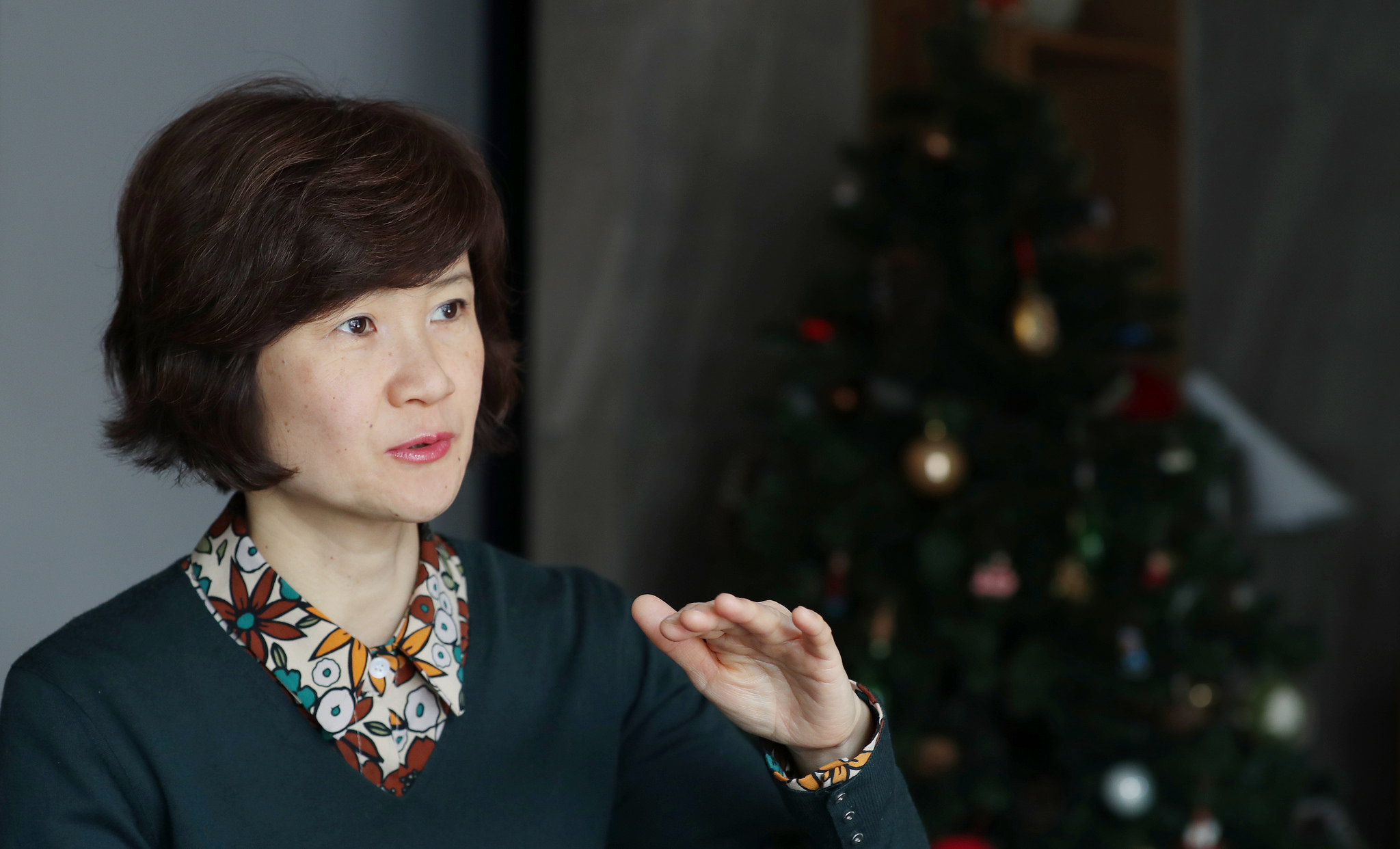 Nakagawa Hideko (나카가와 히데코) in 2017